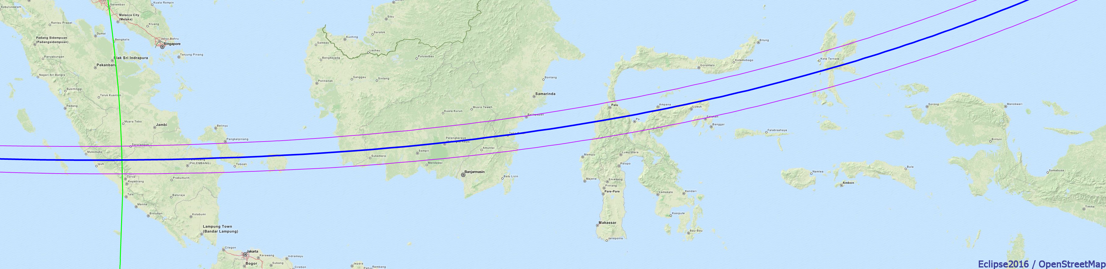 Global path of the total solar eclipse 2016-03-09 over Indonesia. Locations west of the green line see the partially eclised Sun at sunrise. Created with Eclipse2016 Android App / Geodata from OpenStreetMap